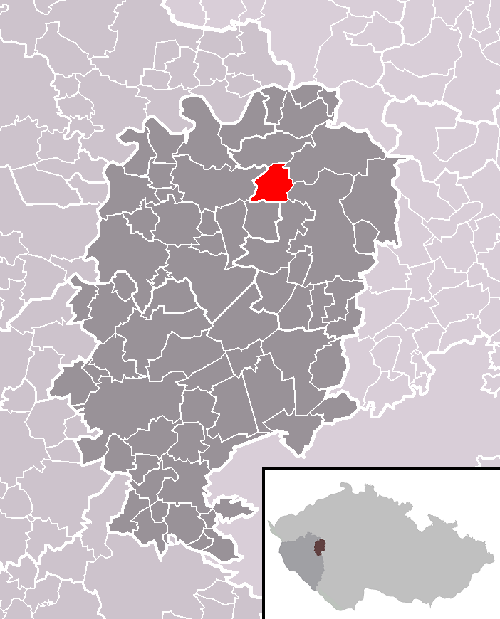 Location of Terešov municipality within Rokycany District and within identical administrative area of Rokycany as a Municipality with Extended Competence.